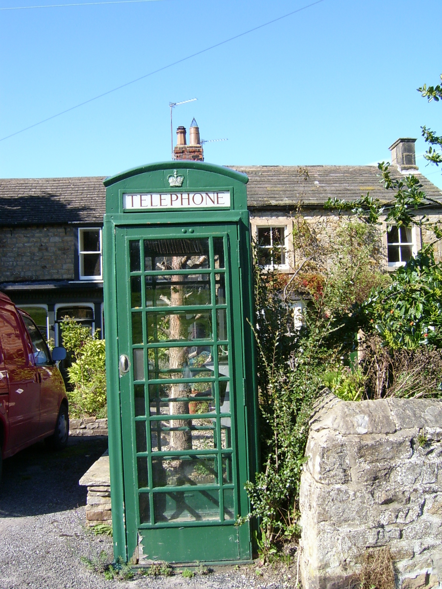 Green telephone booth in Barningham, County Durham